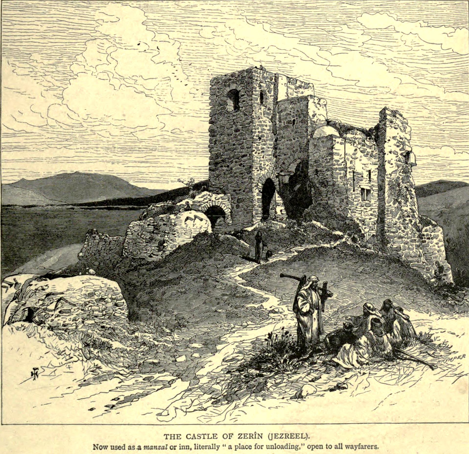 The tower house of the "Castle of Zir'in" in the 1880s. from: Picturesque Palestine, Sinai and Egypt ([1881-84]), vol II, p.27